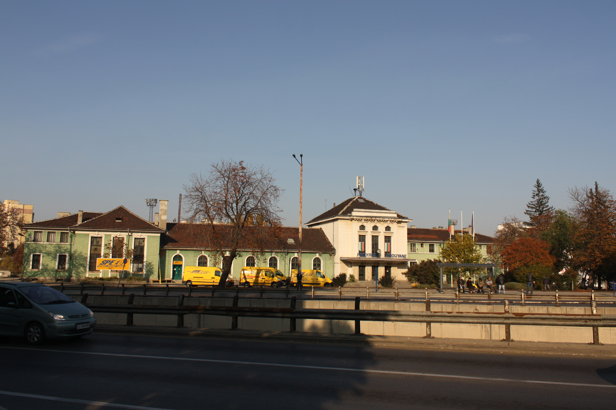 Poduyane rail-way terminal, Sofia, Bulgaria